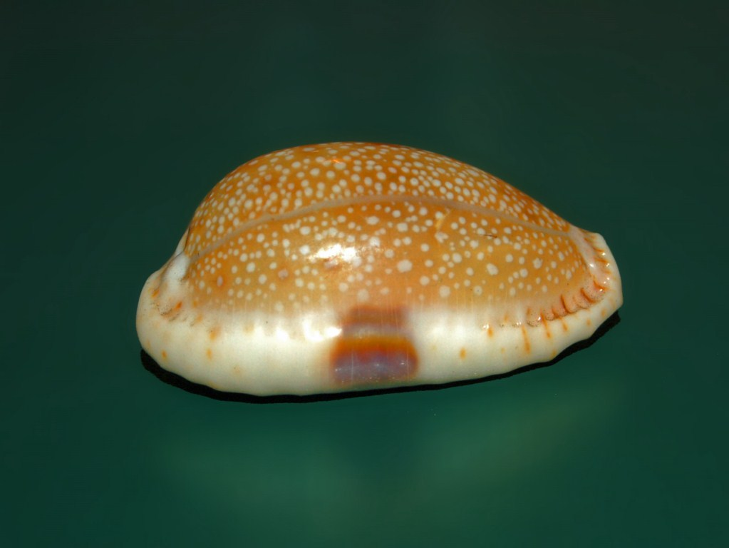 Naria erosa chlorizans f. purissima, Vredenburg, E.W., 1919, anterior end towards the right - Australia